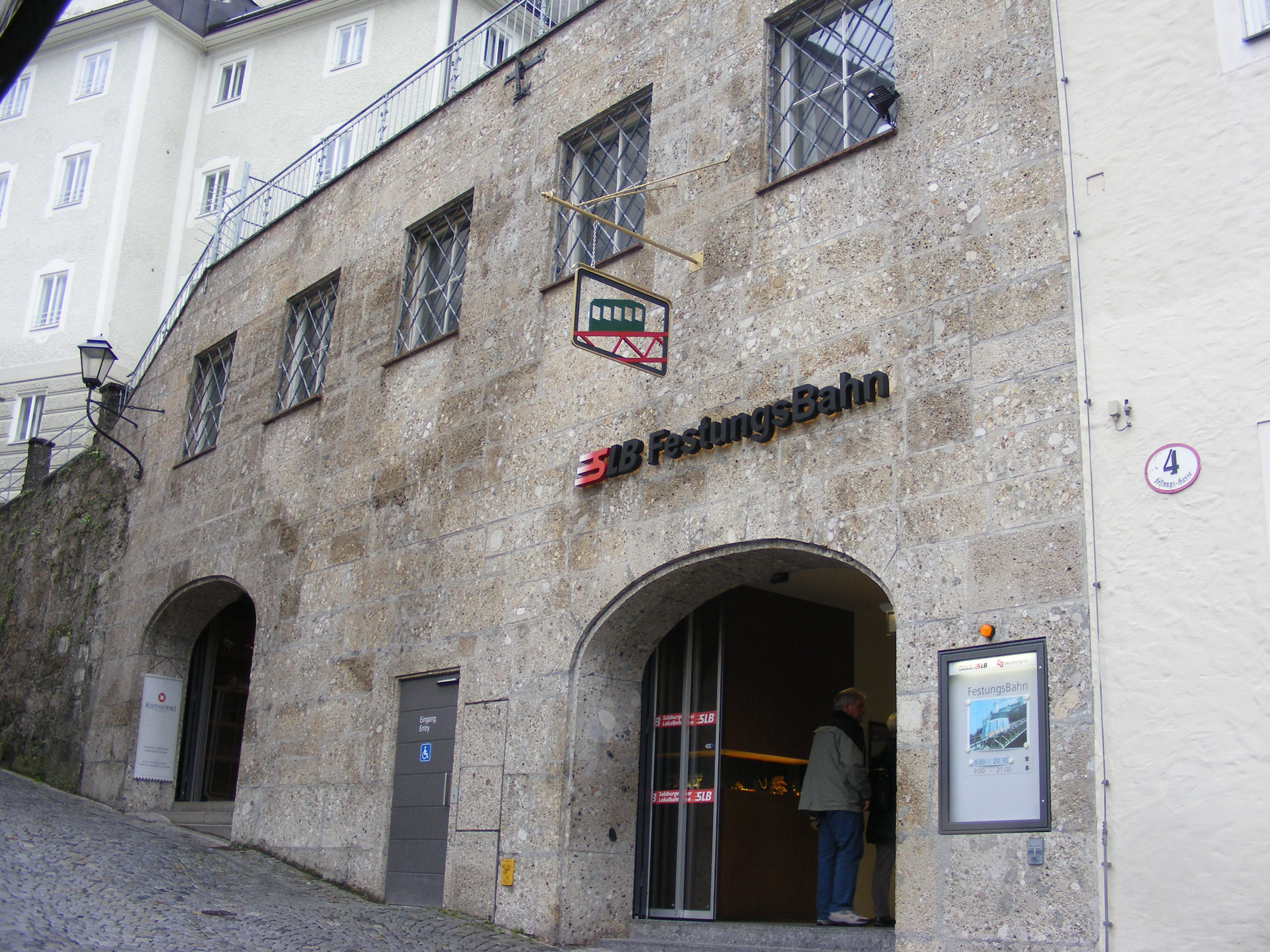 lower terminus of the funicular up to fortress Hohensalzburg